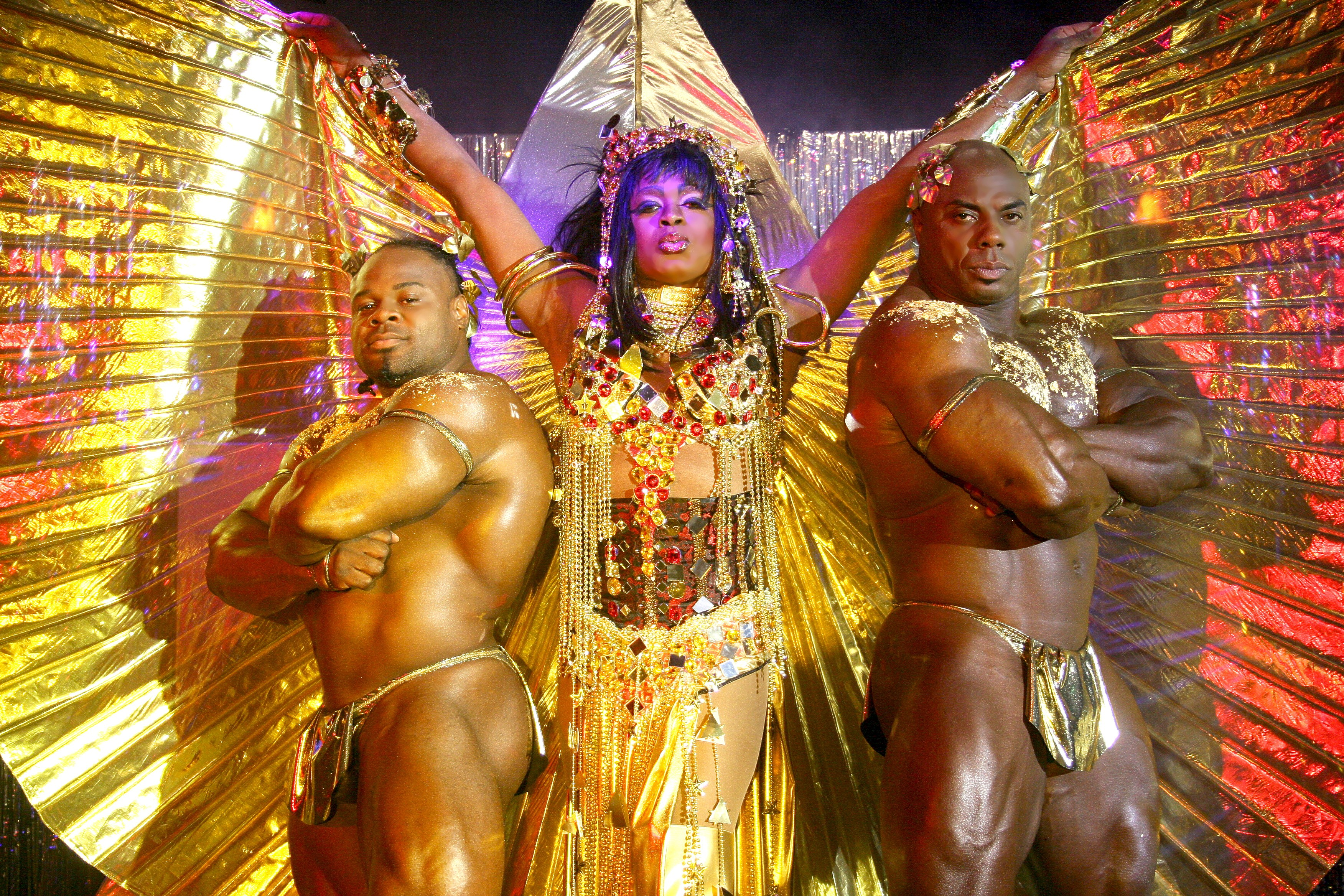 A photo from the movie College Debts (Warr Brothers Films, 2010) showing (left to right) Kai Greene, Will Smith, and Toney Freeman